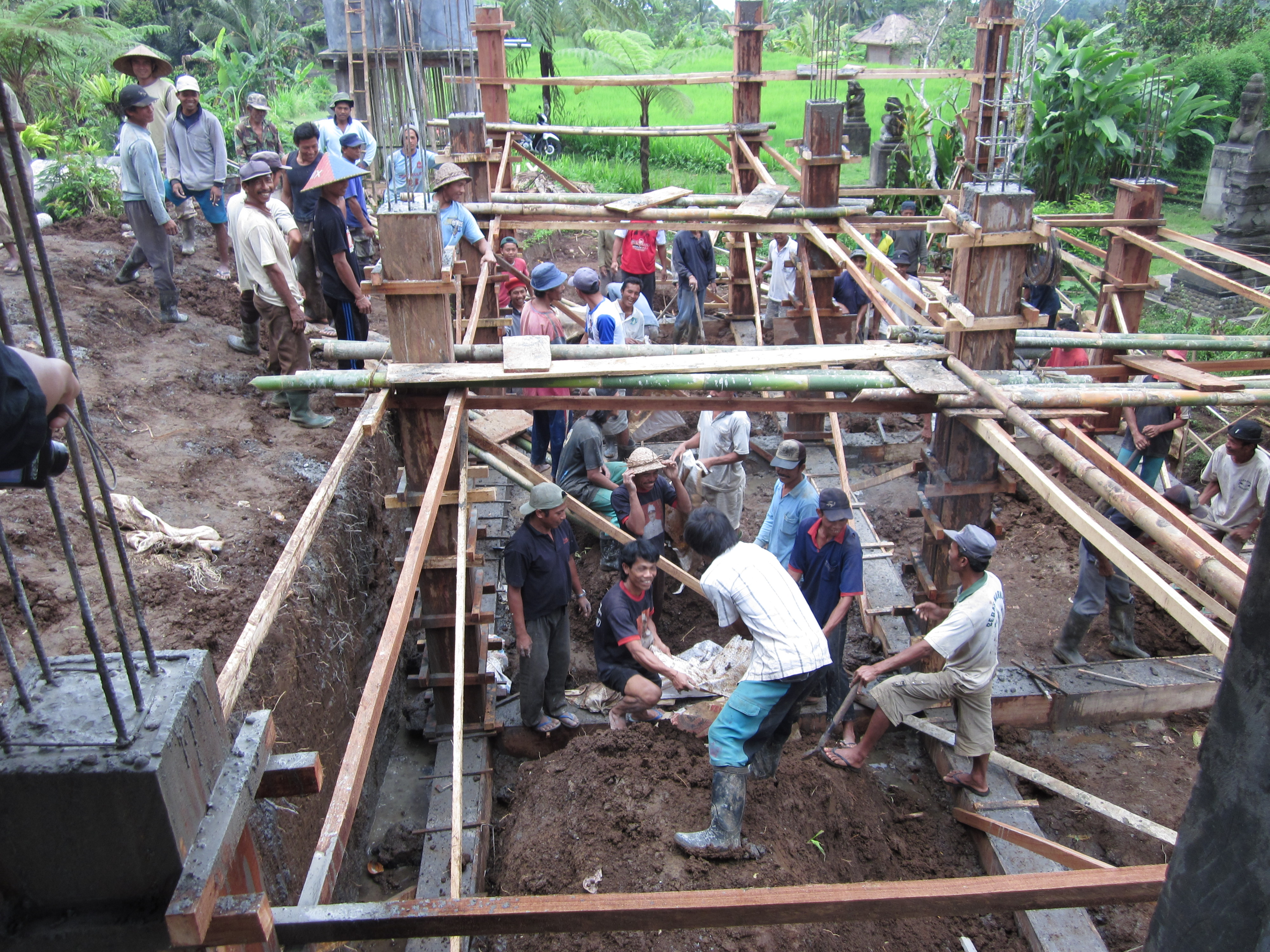 Local workers constructing a community center in Banjar Anyar, Indonesia as part of a Seacology project.